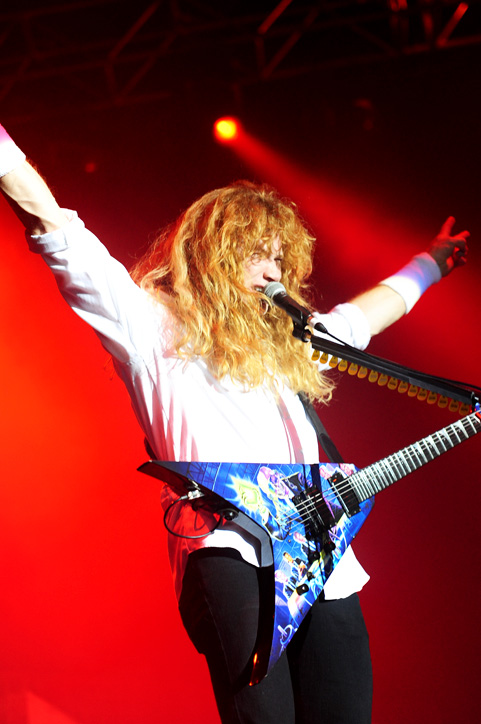 No Sleep Til Festival 2010